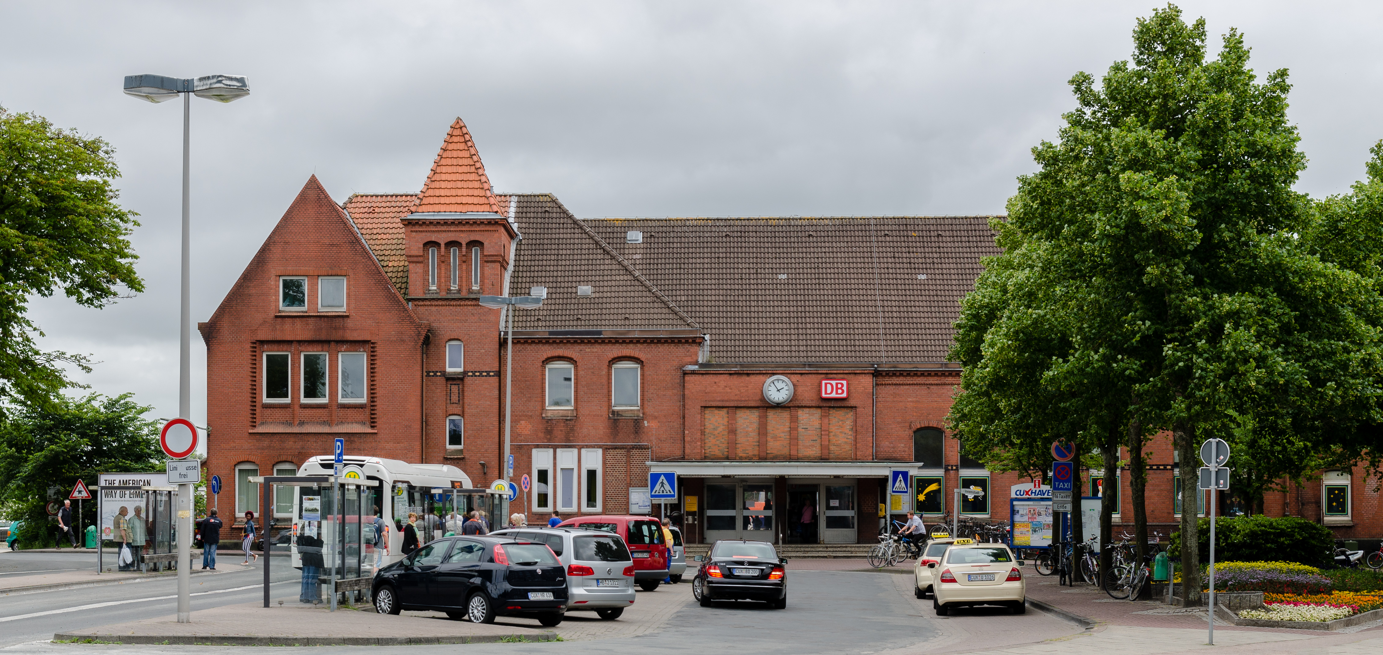 Main station of Cuxhaven west fassade